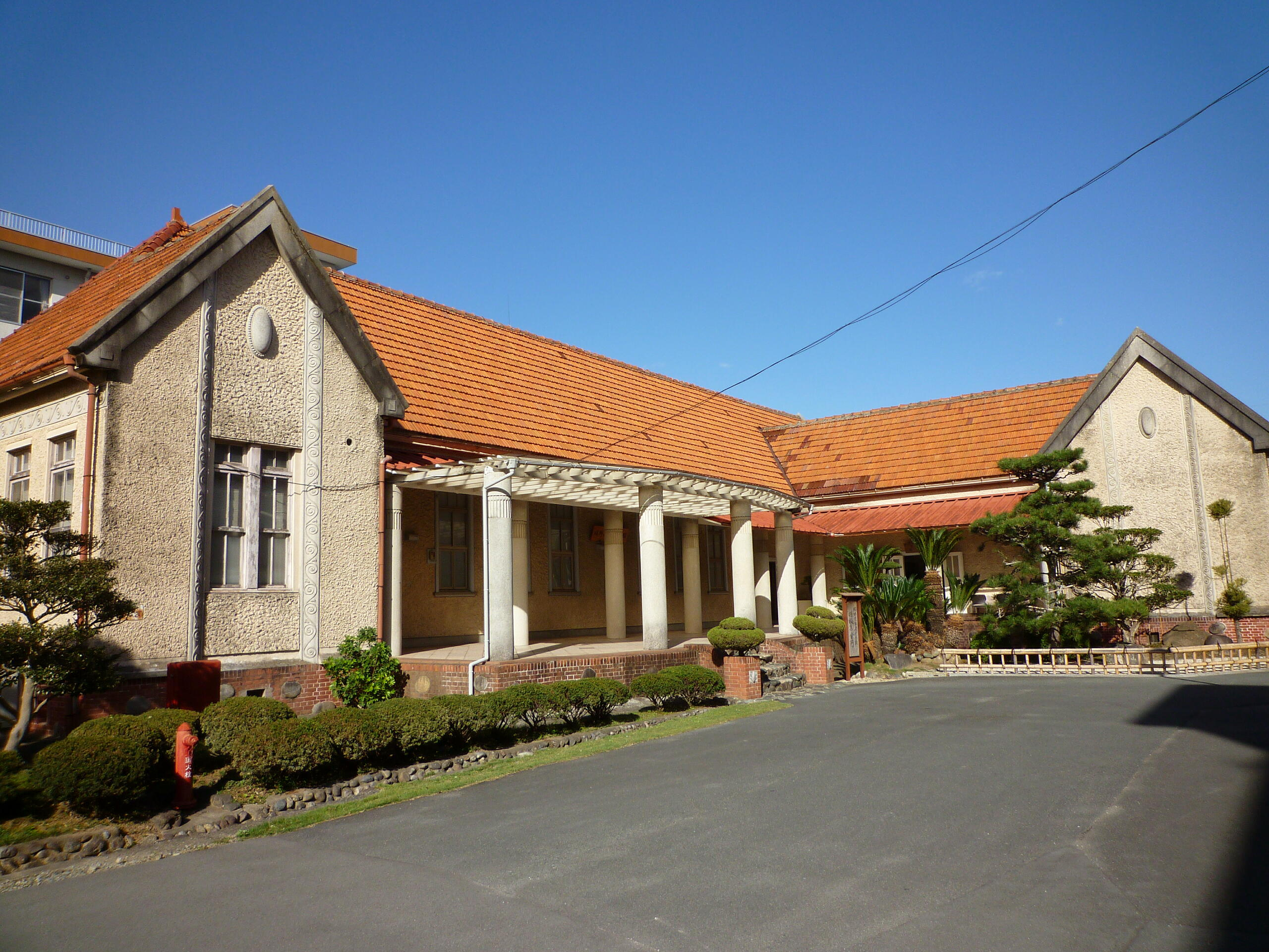 The "Akeno Aviation Memorial Hall"(Akeno Koukuu Kinenkan) in Camp Akeno.